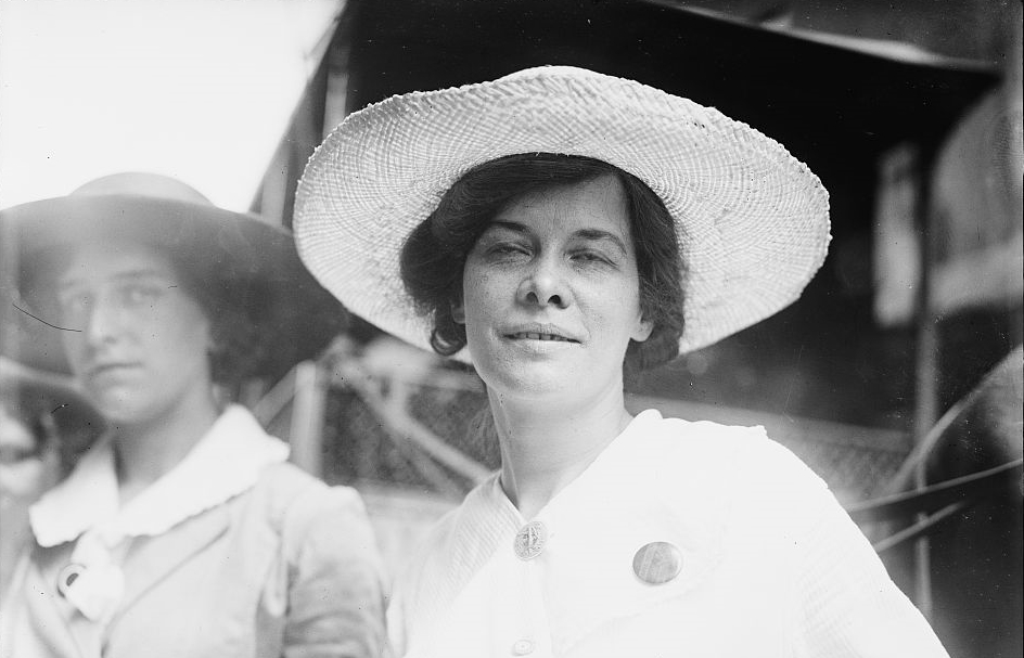 Photo shows suffragist Elisabeth Freeman (1876-1942). (Source: Flickr Commons project, 2008)